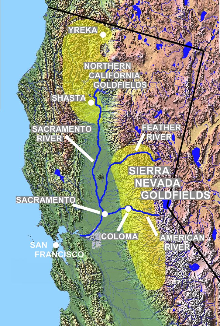 A Topographic relief map of the 19th-century California Gold Rush mining regions.